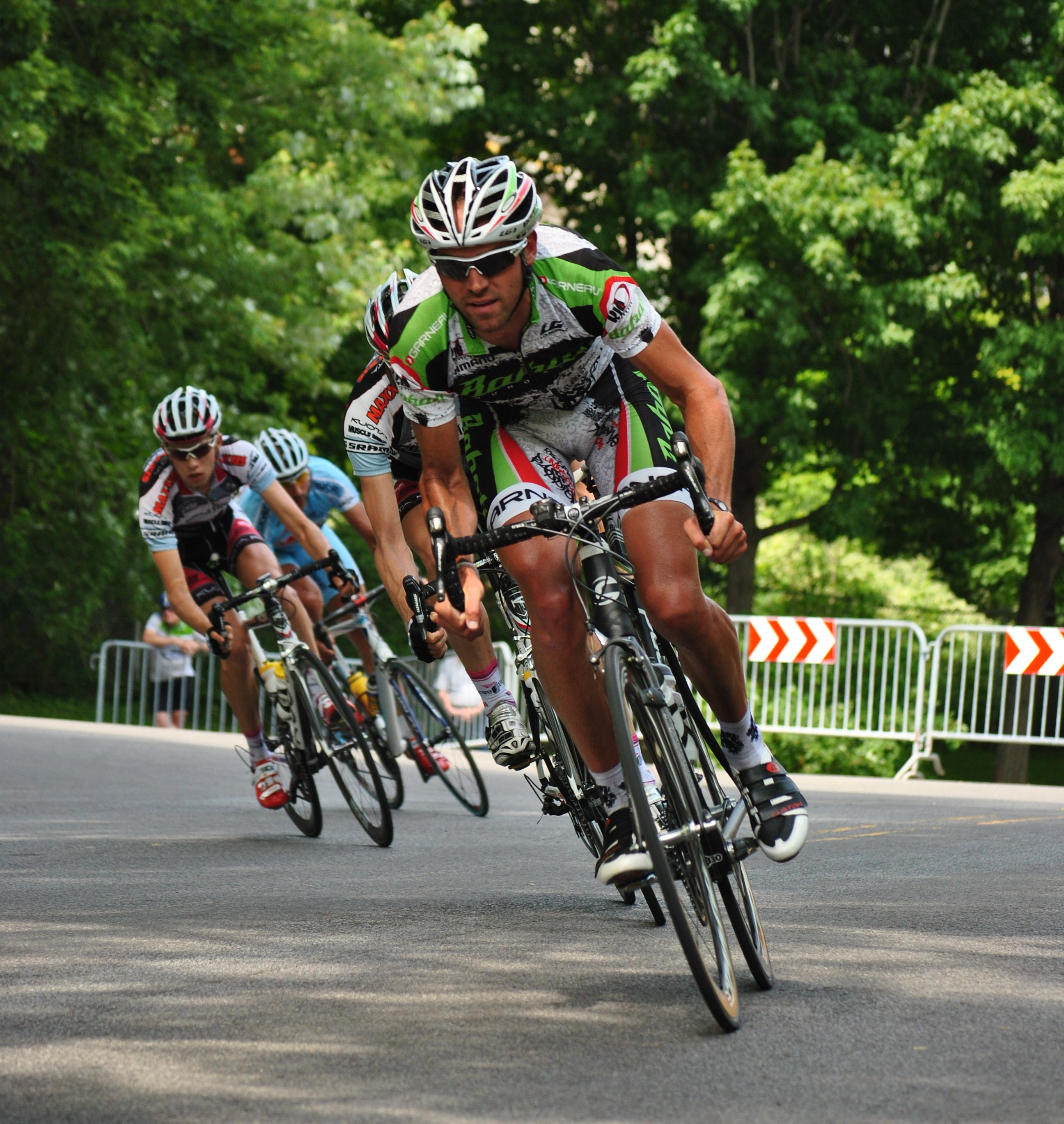 A participant in Tour de Beauce cycling event in 2010. It was taken in Quebec City.